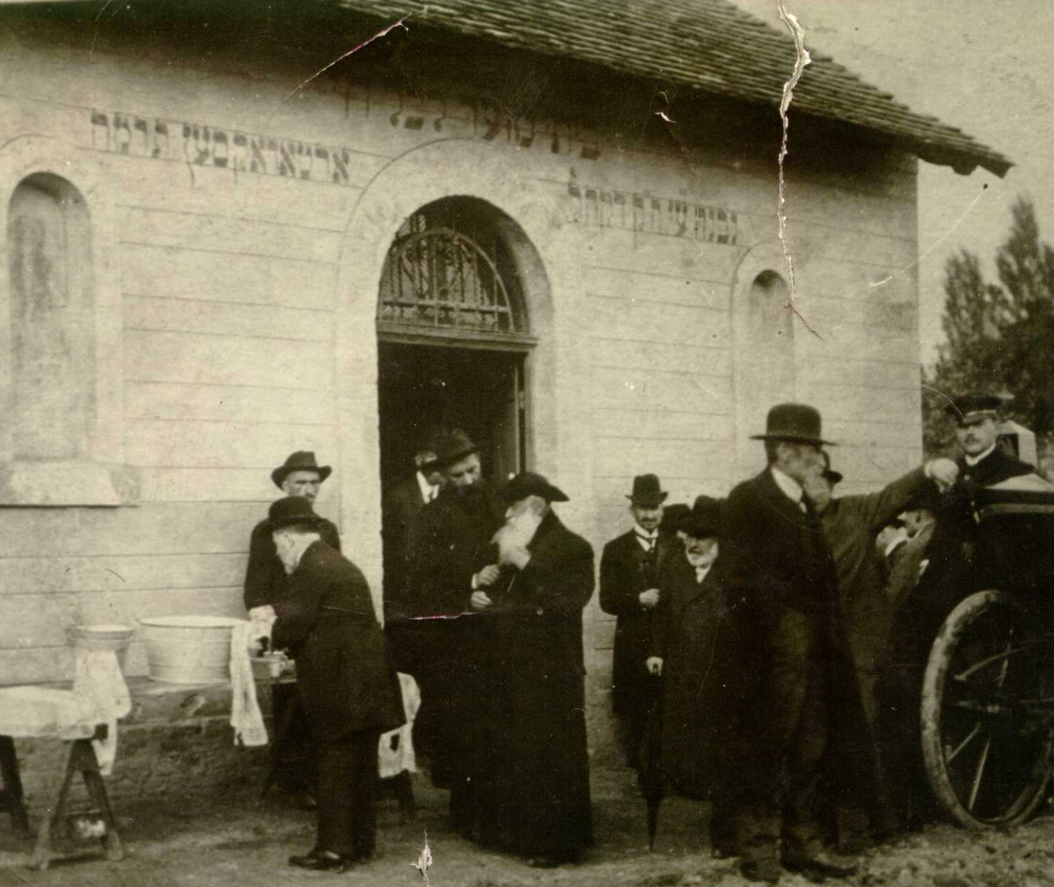 Rabbi Jacob Koppel Reich, chief Orthodox rabbi of Budapest, at the exit from the Csörsz street Jewish Cemetery. Picture taken at some point before his 1929 death.